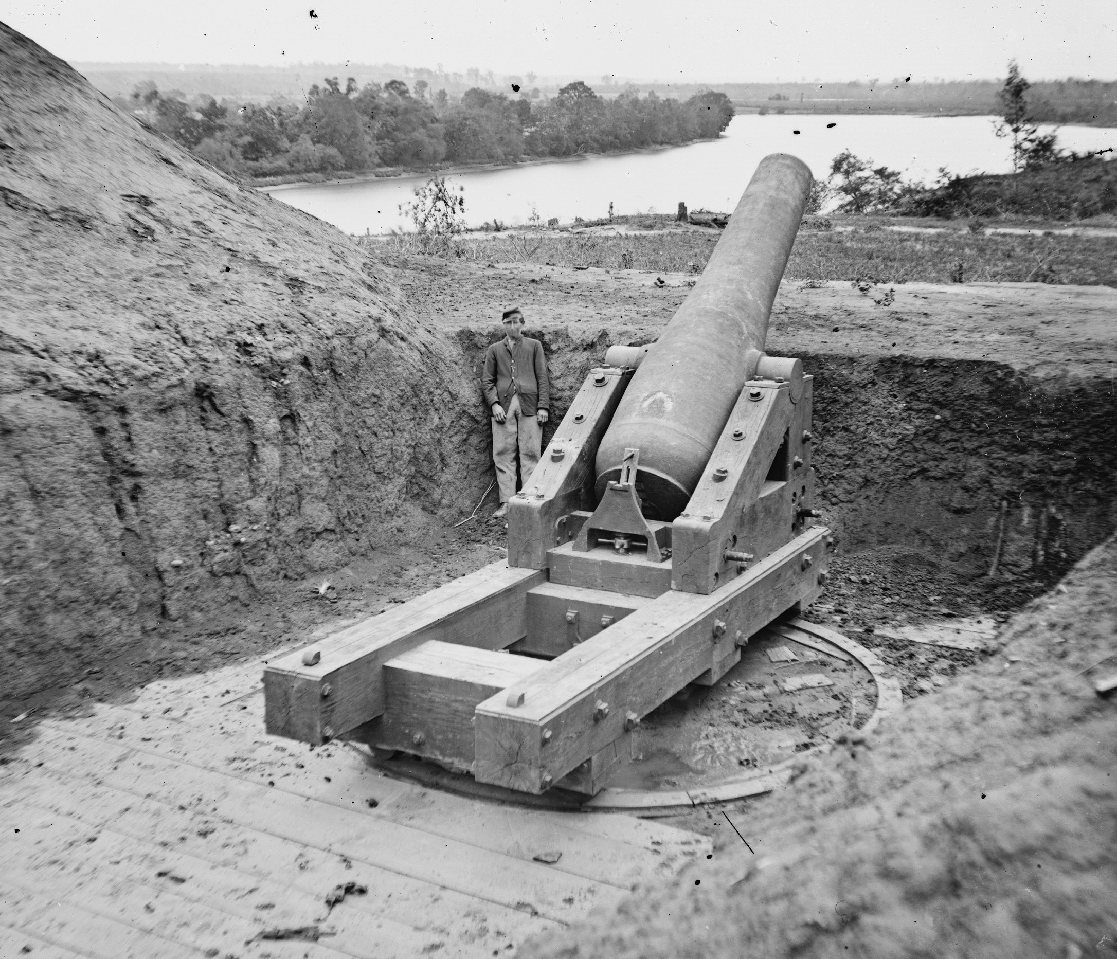 This is an image of one of the artillery pieces used to bombard the Dutch Gap Canal during it's construction in 1864